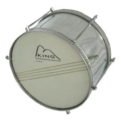 Caixa - snare drum